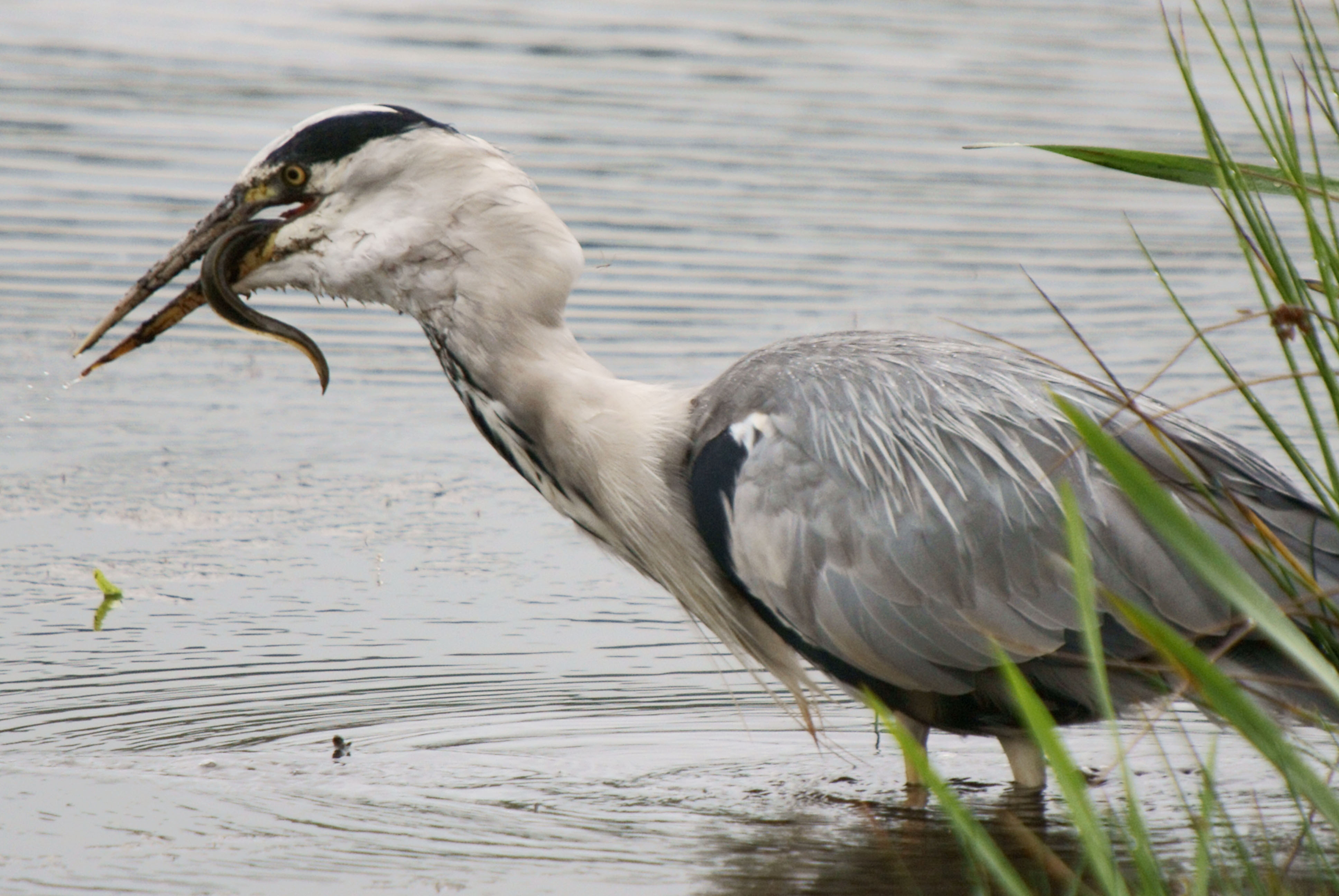 Grey Heron swallowing an eel at Leighton Moss RSPB, August 2009. It was really bad weather, drizzle all morning, so this was the best I could get.